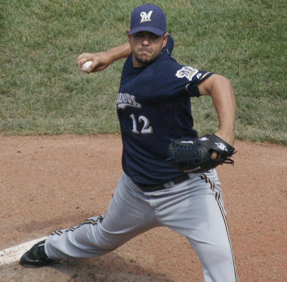 Carlos Villanueva